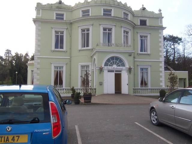 Hope Castle This twelve bedroom hotel is named for the same Hope as the Hope Diamond. From 1900 - 1904 Hope Castle served as a home for the Duke of Connaught, Queen Victoria's son and his family. The duke was the commander of the British Forces in Ireland at that time.